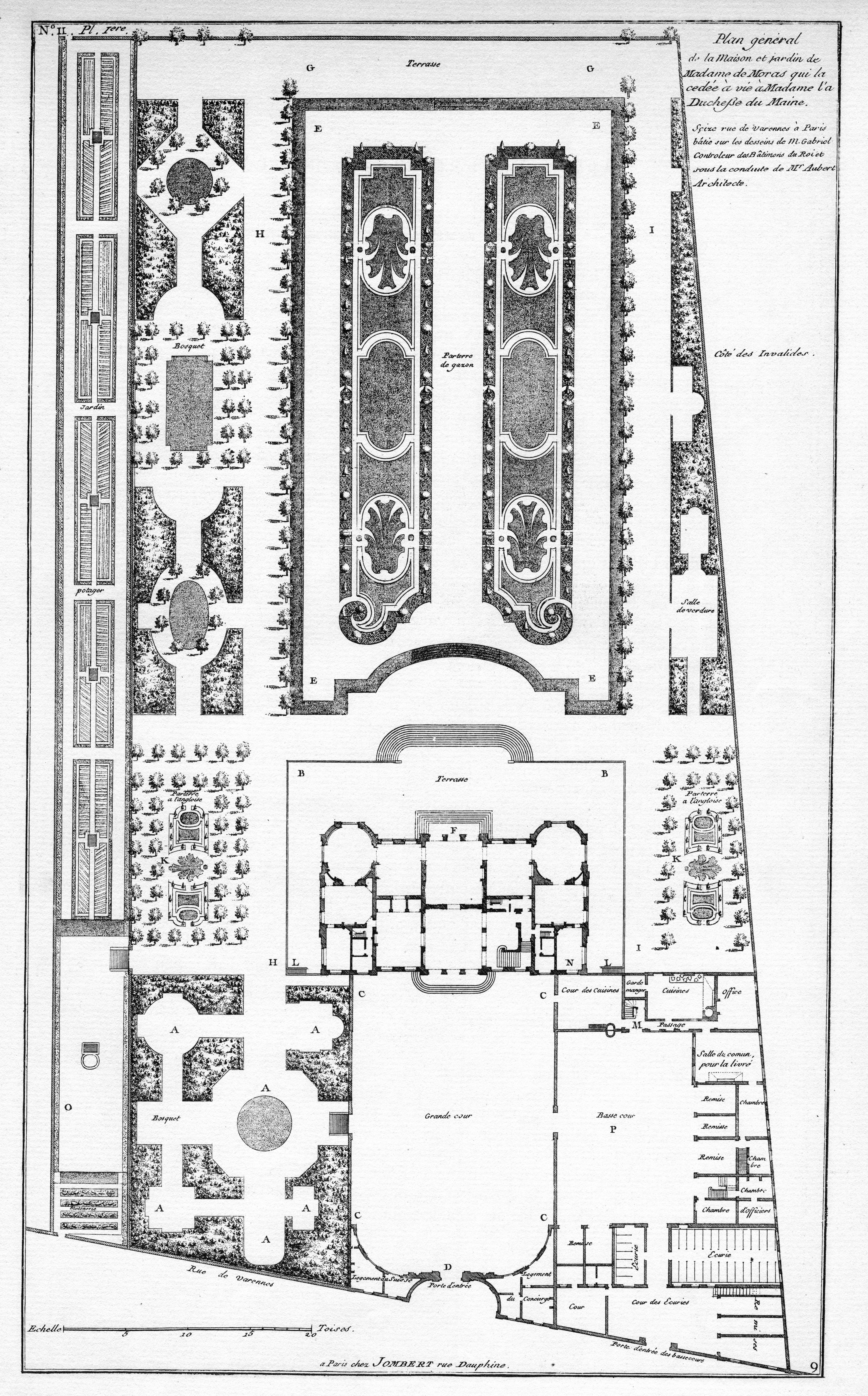 General site plan of the Hôtel de Madame la Duchesse du Maine (now known as the Hôtel Biron), located on the rue Varenne, Faubourg St. Germain, Paris. Plate 1 in Architecture françoise, Tome 1, Livre 2, Chapitre 2 (following p. 208). For the French text discussing this plate, see p. 205 (at Gallica).